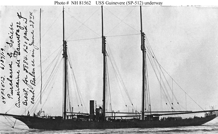 The United States Navy patrol vessel during World War I